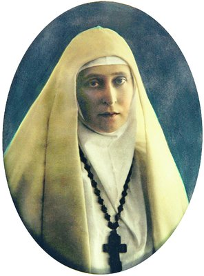 Grand Duchess Elizabeth Fyodorovna